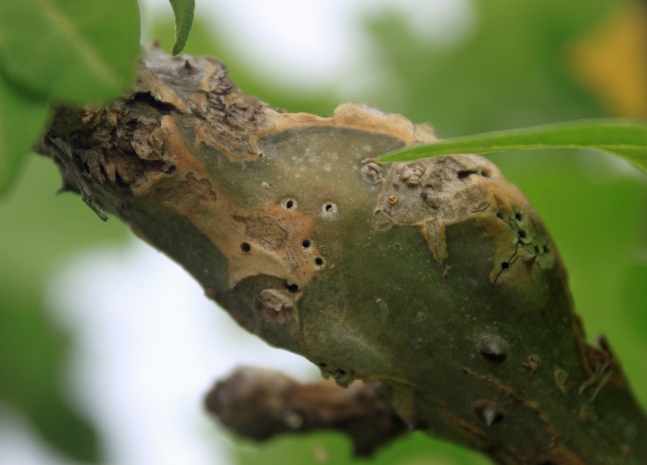 After hatch of Quadrastichus erythrinae on Erythrina variegata. デイゴヒメコバチが羽化し、デイゴの枝から脱出したところ。